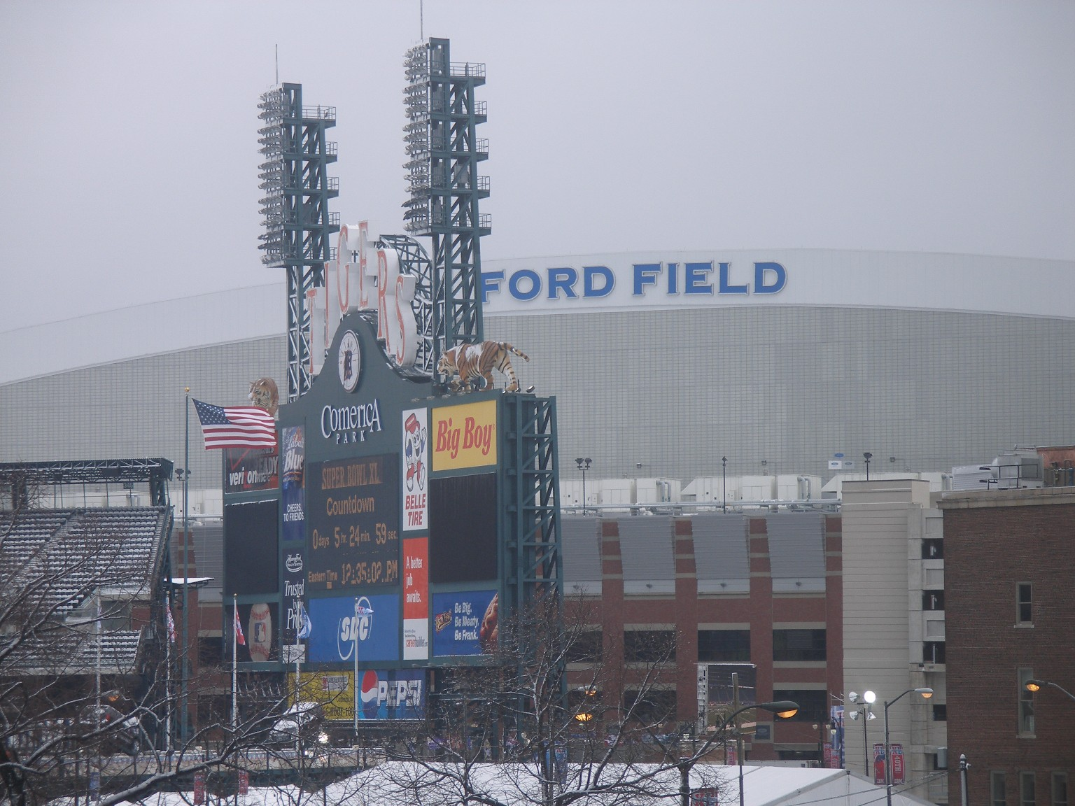 The outside of Ford Field and Comerica Park about 5 hours and 25 minutes before kickoff to Super Bowl XL on February 5, 2006. Category:Images of Detroit, Michigan